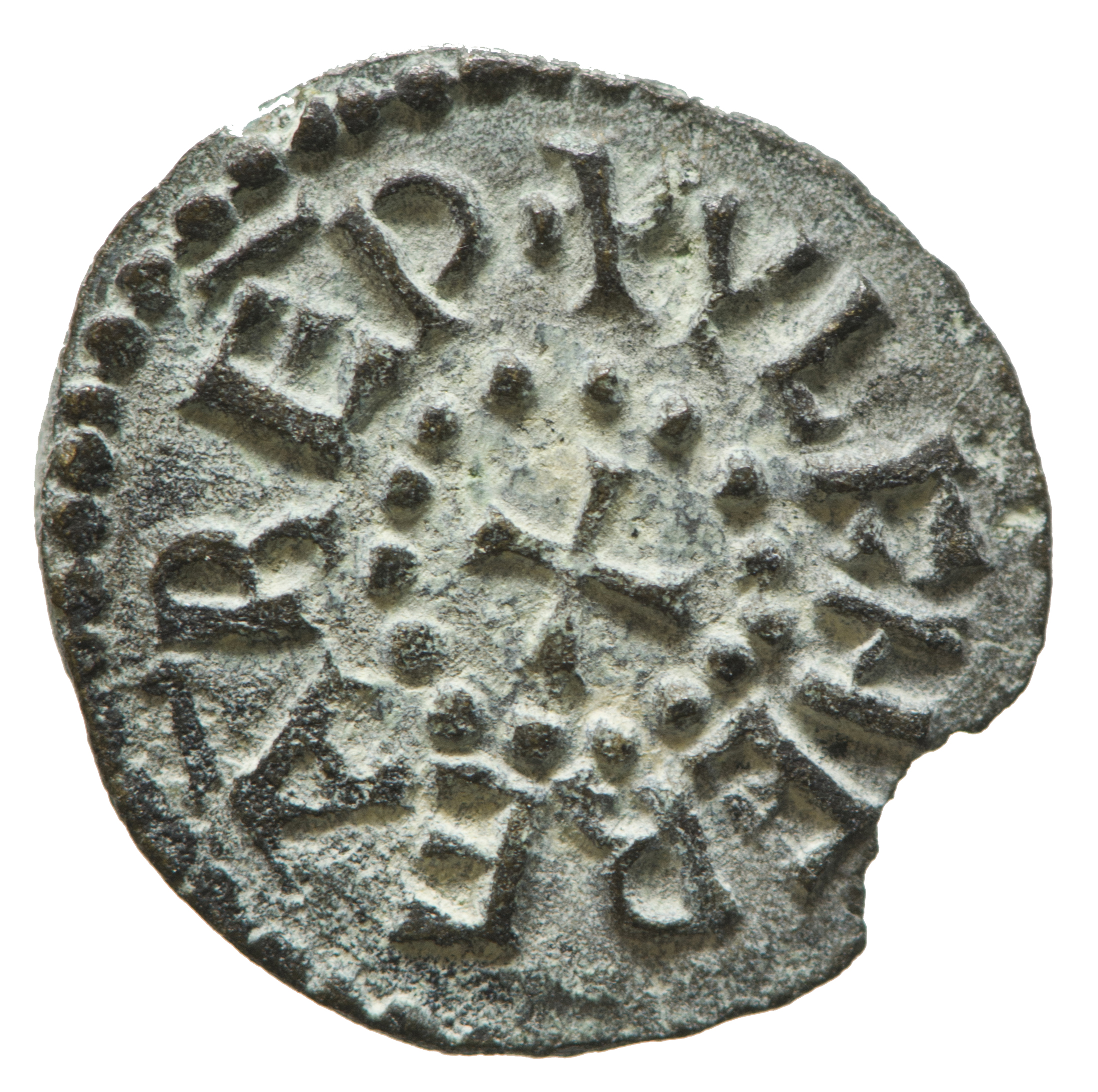 Obverse (front) of a copper styca of Wulfhere_of_York Cross inside ring of pellets